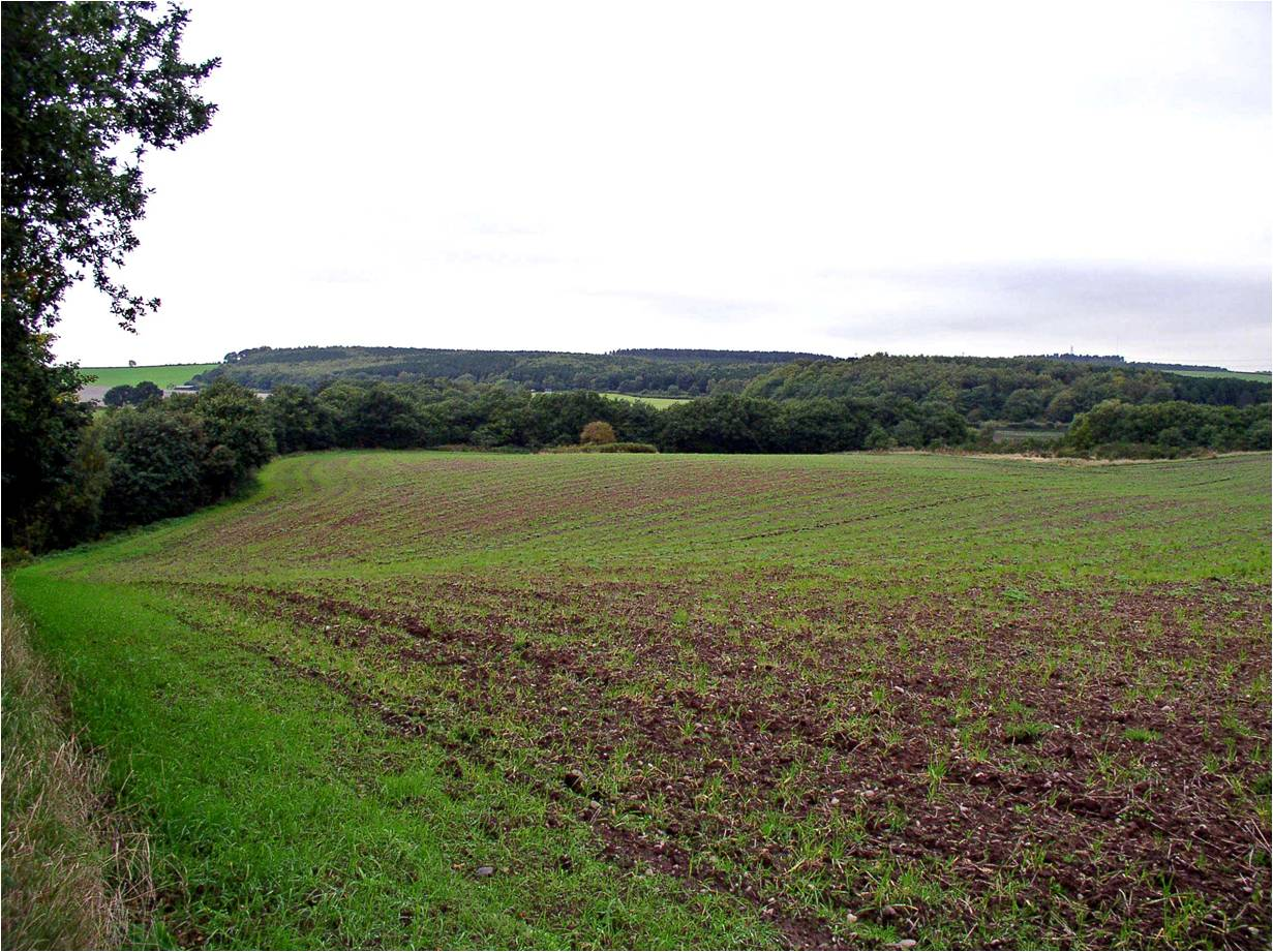 A view of Beeston Lodge, the site of Clipstone Peel in the early 14th century. The site was a fortified agricultural community enclosed by Edward II as an addendum to the south-west of Clipstone Park.